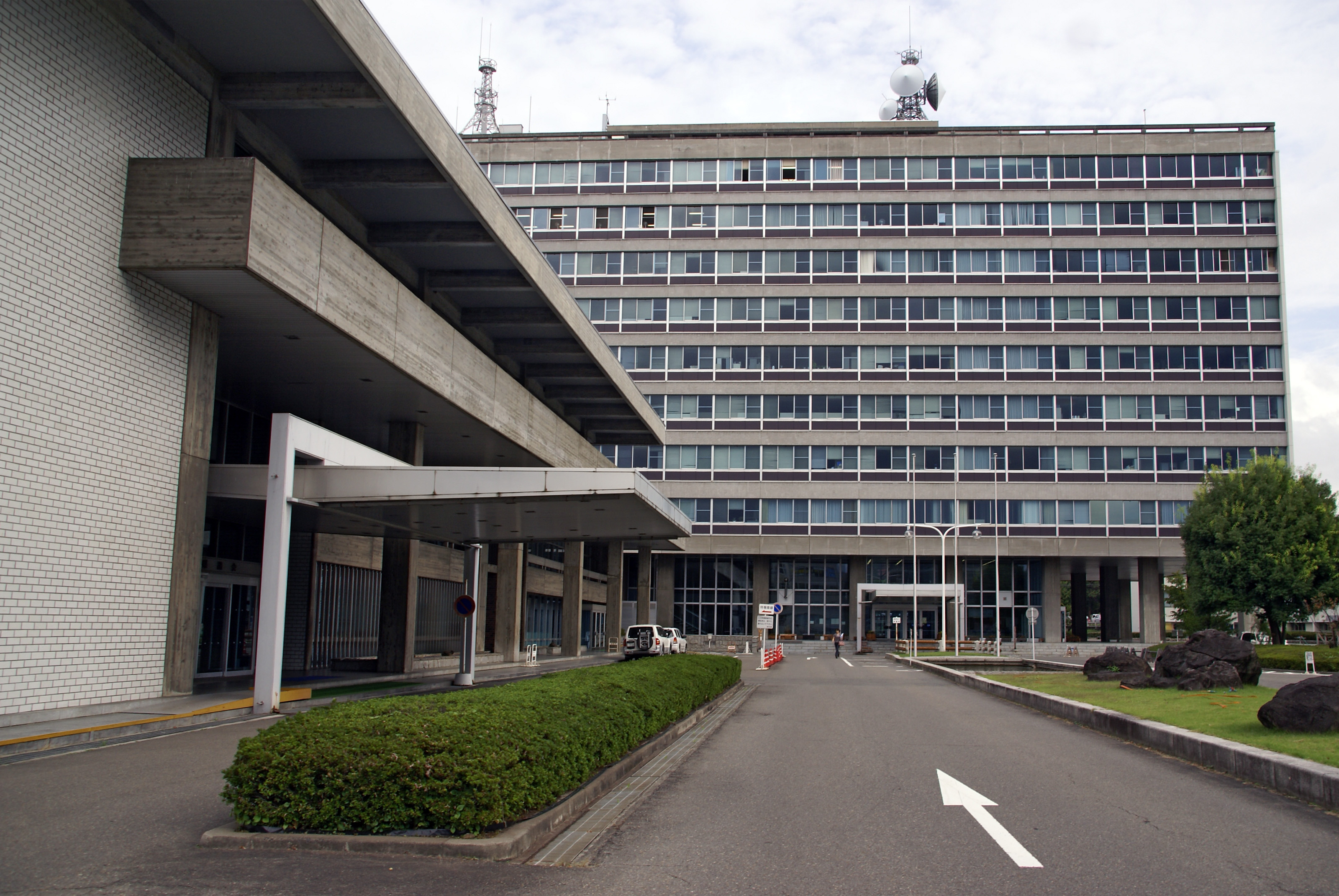 Nagano prefectural government in Nagano, Nagano prefecture, Japan